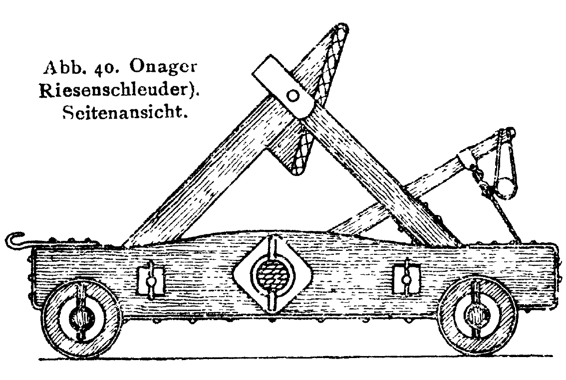 Drawing of a Roman onager catapult.